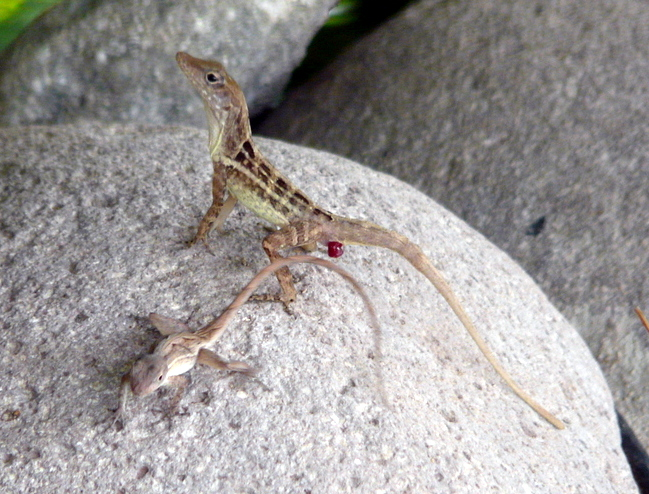 Anolis lineatopus pair